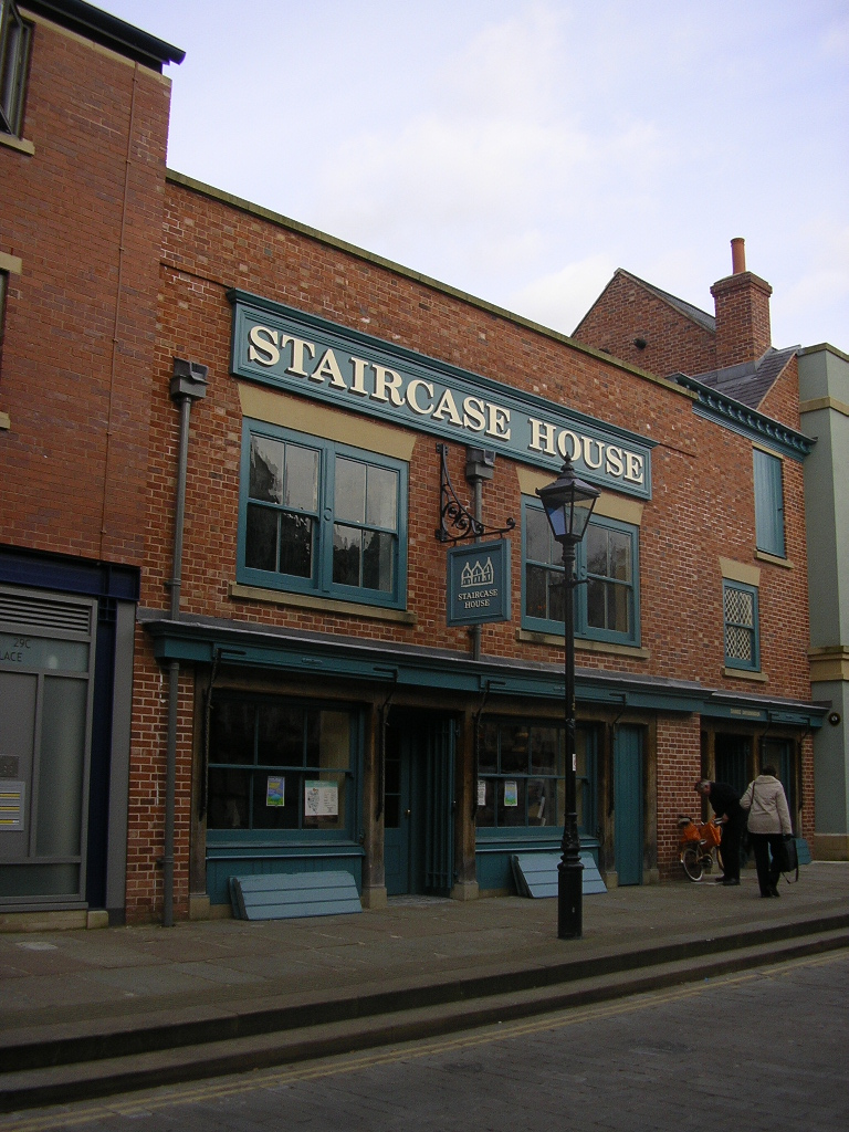 Photograph of Staircase House in Greater Manchester, England.